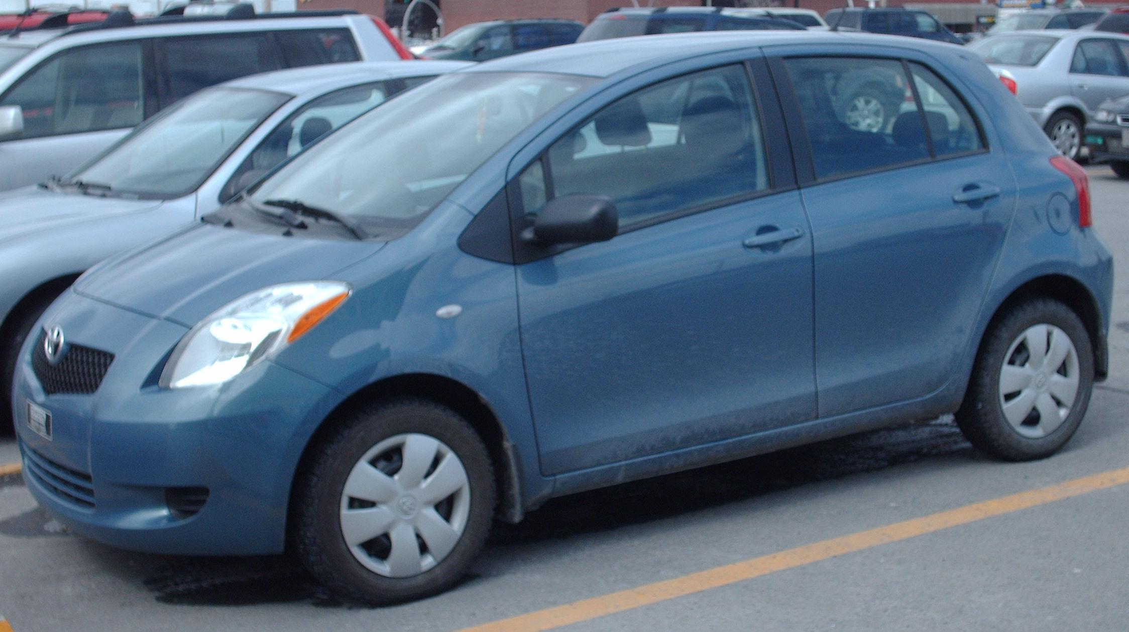 2006-present Toyota Yaris 5-door photographed in Montreal, Quebec, Canada.